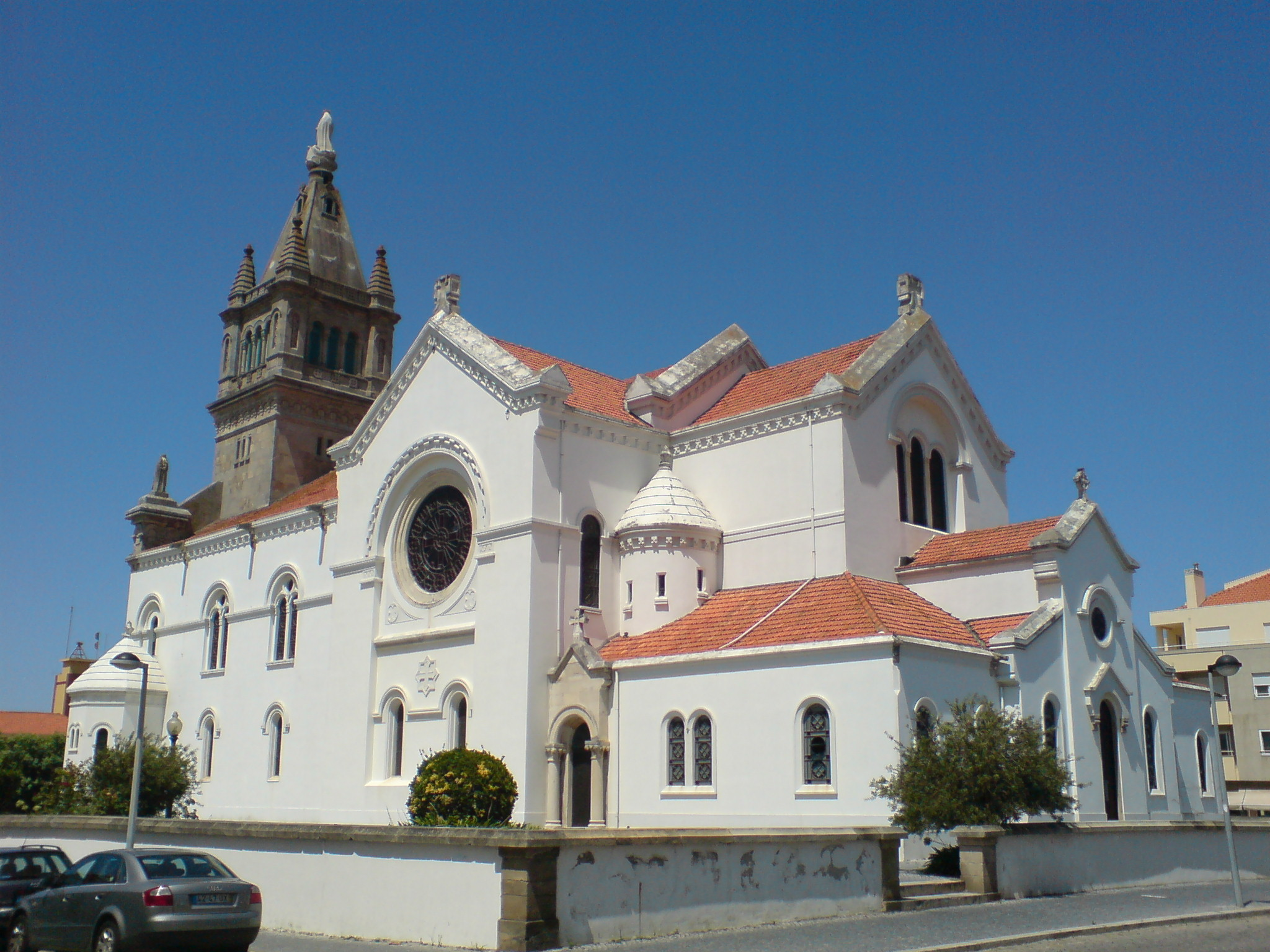 Iglesia de Espinho.